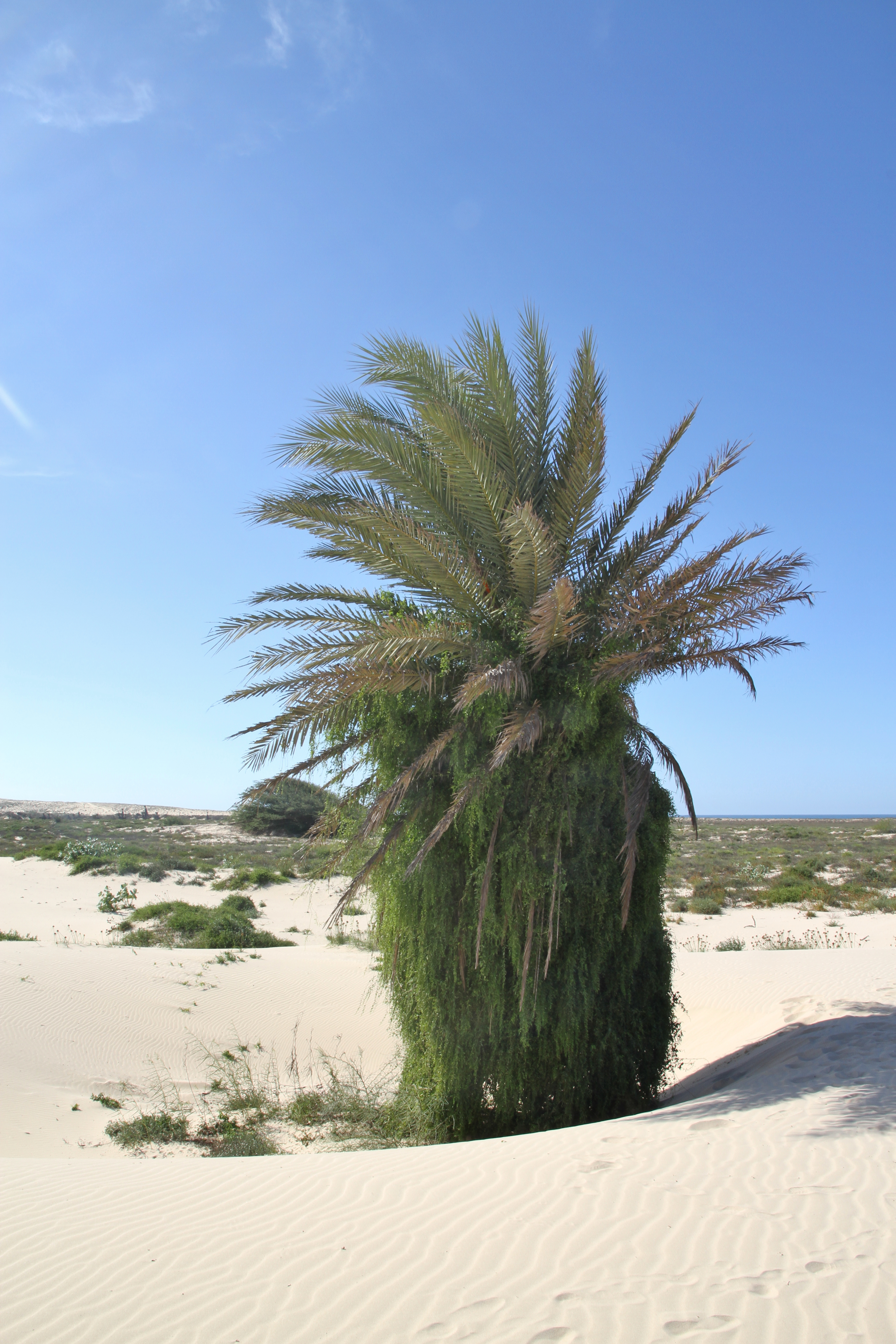 A date palm at the dunes in the west part of Boa Vista island in 2010 December. Probably Phoenix atlantica or Phoenix dactylifera. The tree seems to have some other green plant under its shadow giving leaves.